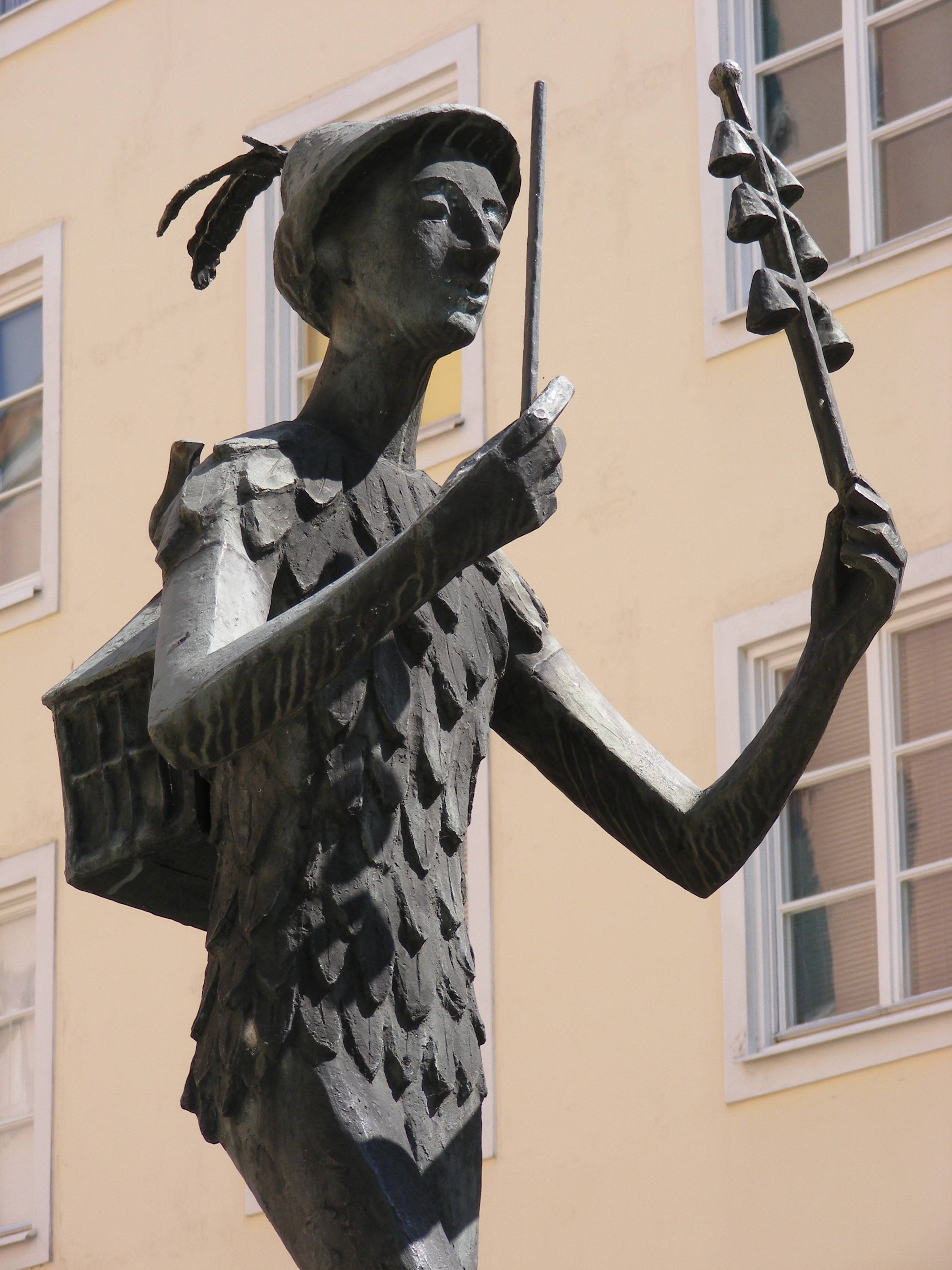 stone figurine of Papageno, a charakter in Mozart's opera "The Magic Flute", part of a fountain in Salzburg, Austria